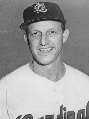 Professional baseball player Stan Musial